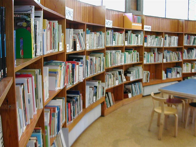 Shelves in "La Petite Bibliothèque Ronde"